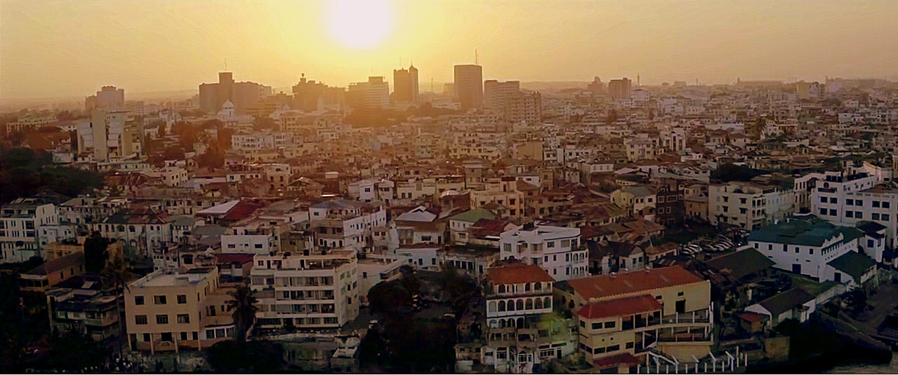 An aerial view of Mombasa city skyline from the old town